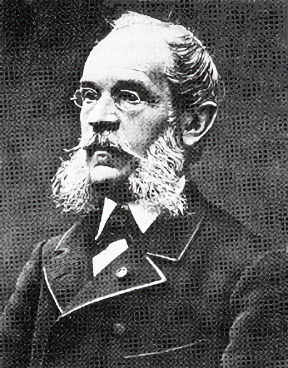 Michel Lentz (May 21, 1820 – September 8, 1893) was a Luxembourgian poet. He is best known for having written Ons Hémécht, the national anthem of Luxembourg.